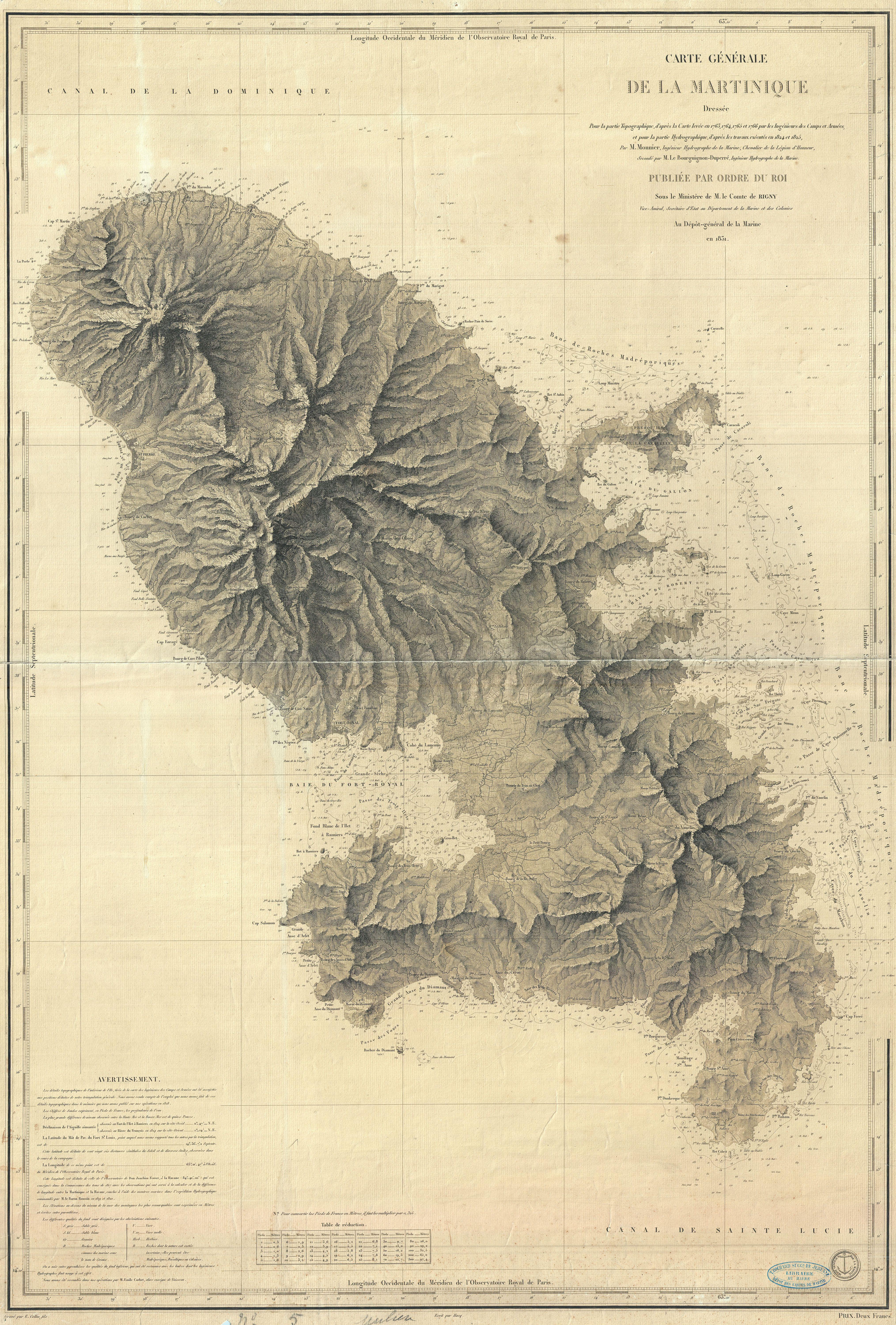 A beautiful French nautical chart or map of Martinique issued in 1831 by the Depot de la Marine. Offers sumptuous detail both inland at sea. There are countess depth soundings as well as notes on undersea features such as banks and shoals. Equally impressive detail inland with beautifully engraved topography throughout. Today Martinique, with its French Caribbean culture, lush rainforests, and stunning beaches is considered a jewel of the Caribbean. Issued by M. Monnier and M. Le Bourguignon-Duperre for the Depot-general de la Marine in 1831.